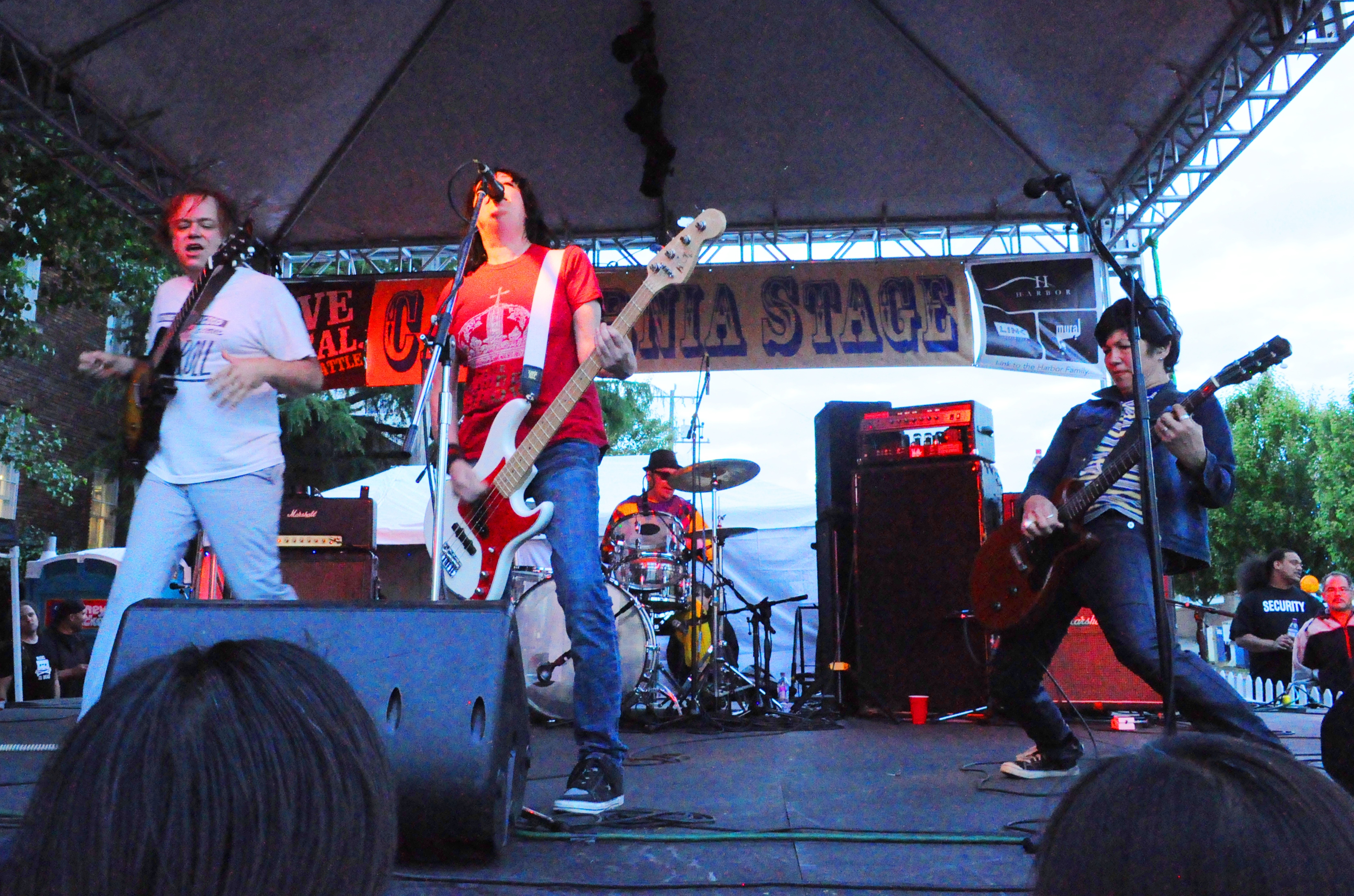 The Fastbacks playing their first reunion gig in over five years, at West Seattle Summer Fest, Seattle, Washington, USA. Left to right: Kurt Bloch, Kim Warnick, Mike Musburger (drums), Lulu Gargiulo.